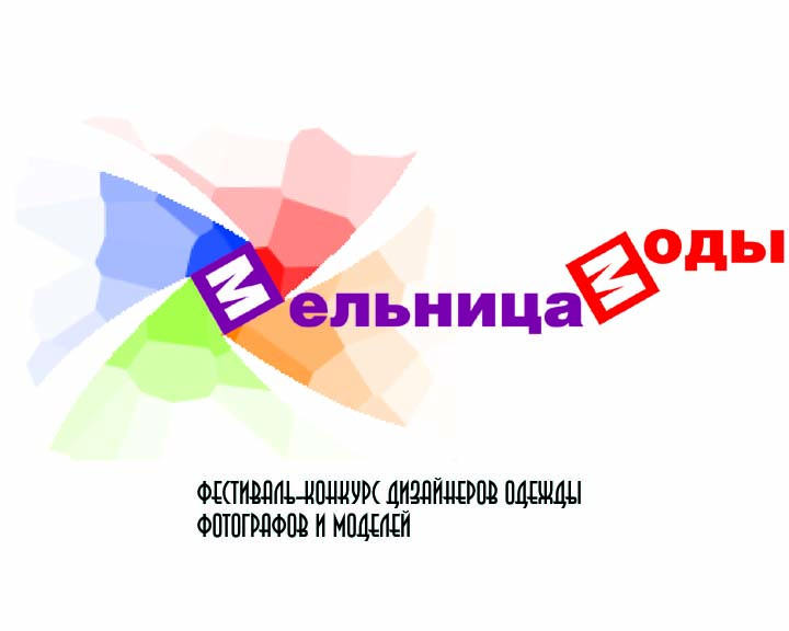 poster of Mill of fashion festival. 2001 AD